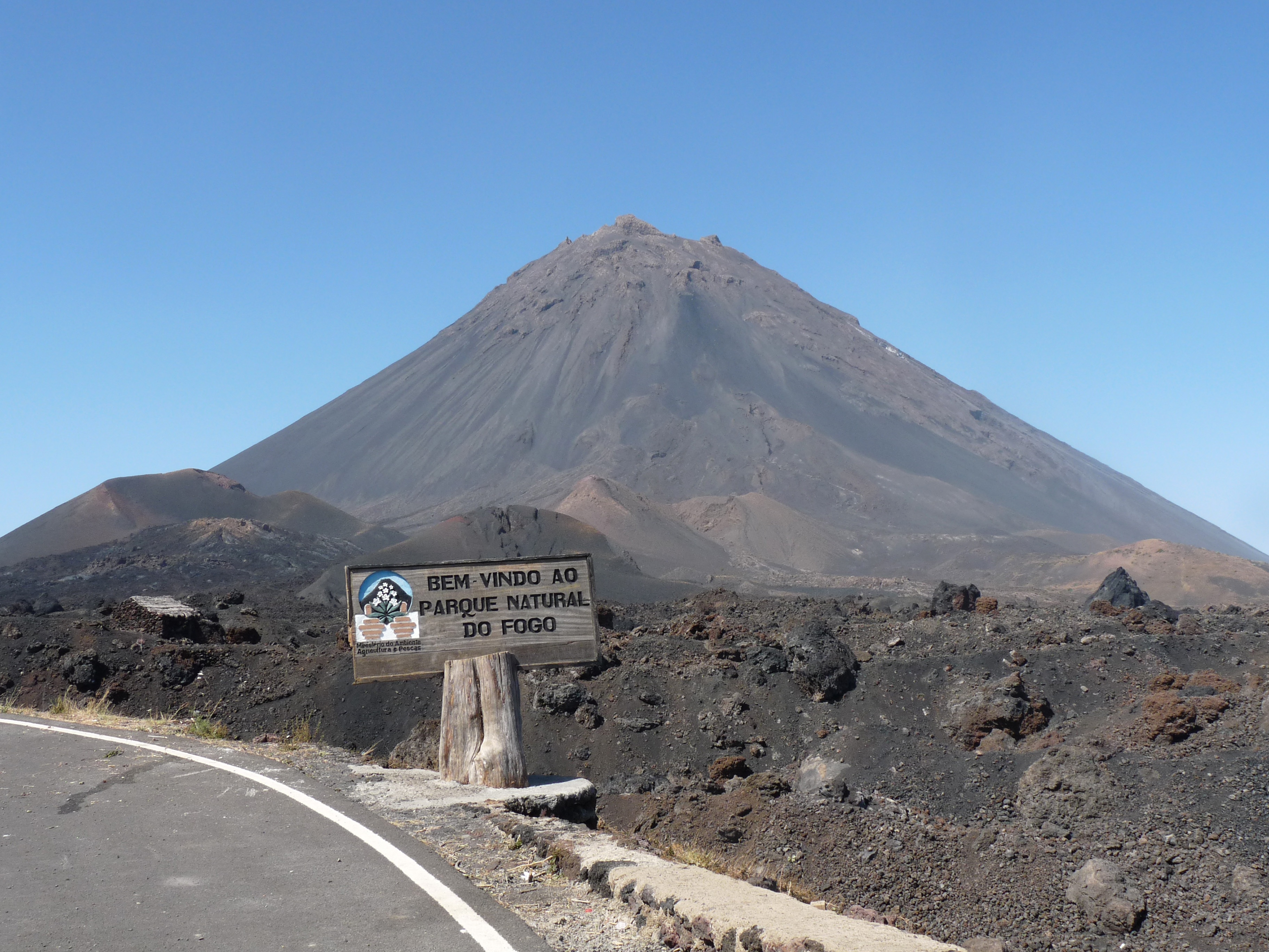 Pico do Fogo, Cape Verde: by the natural park